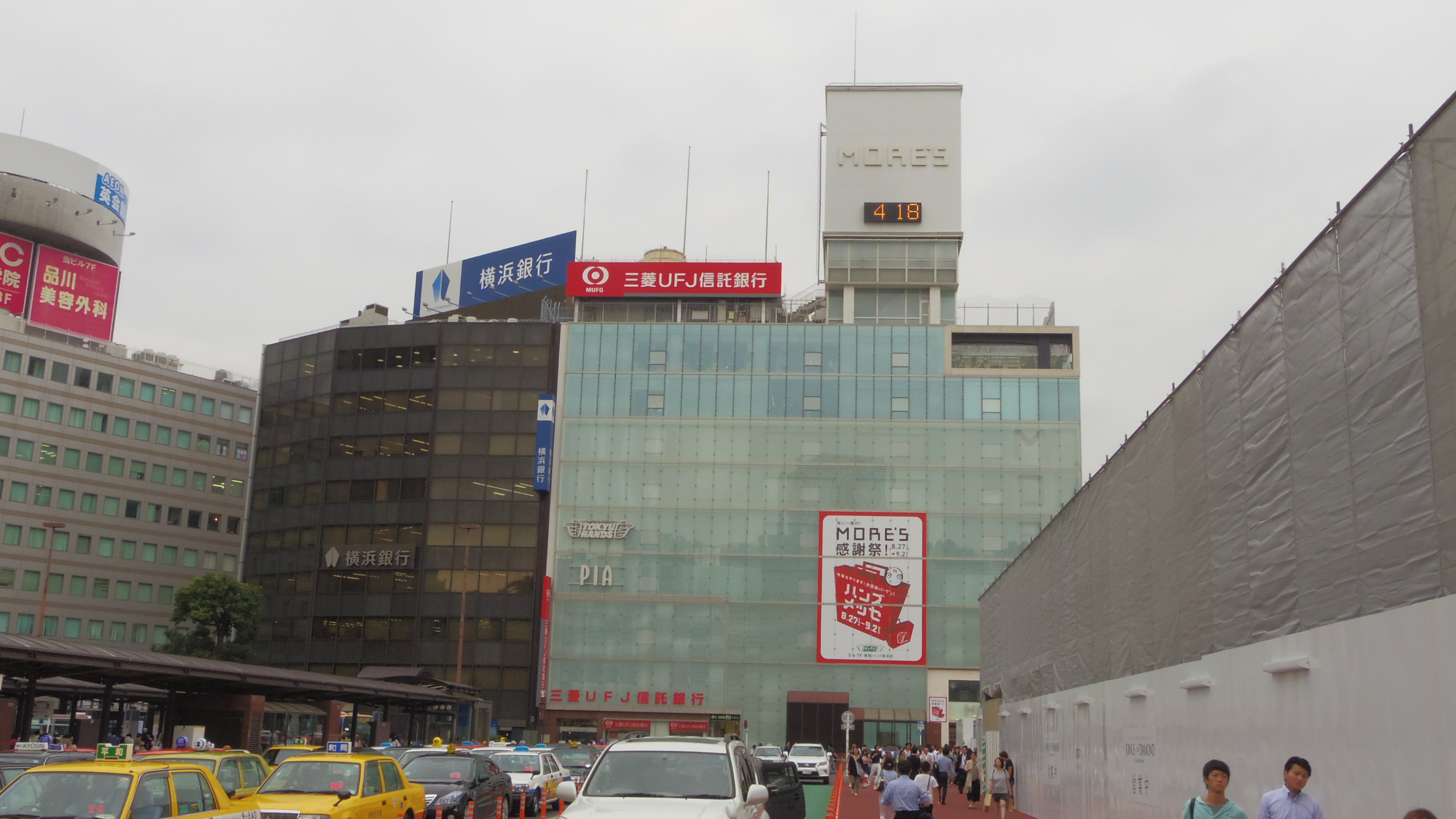 Yokohama MORE'S